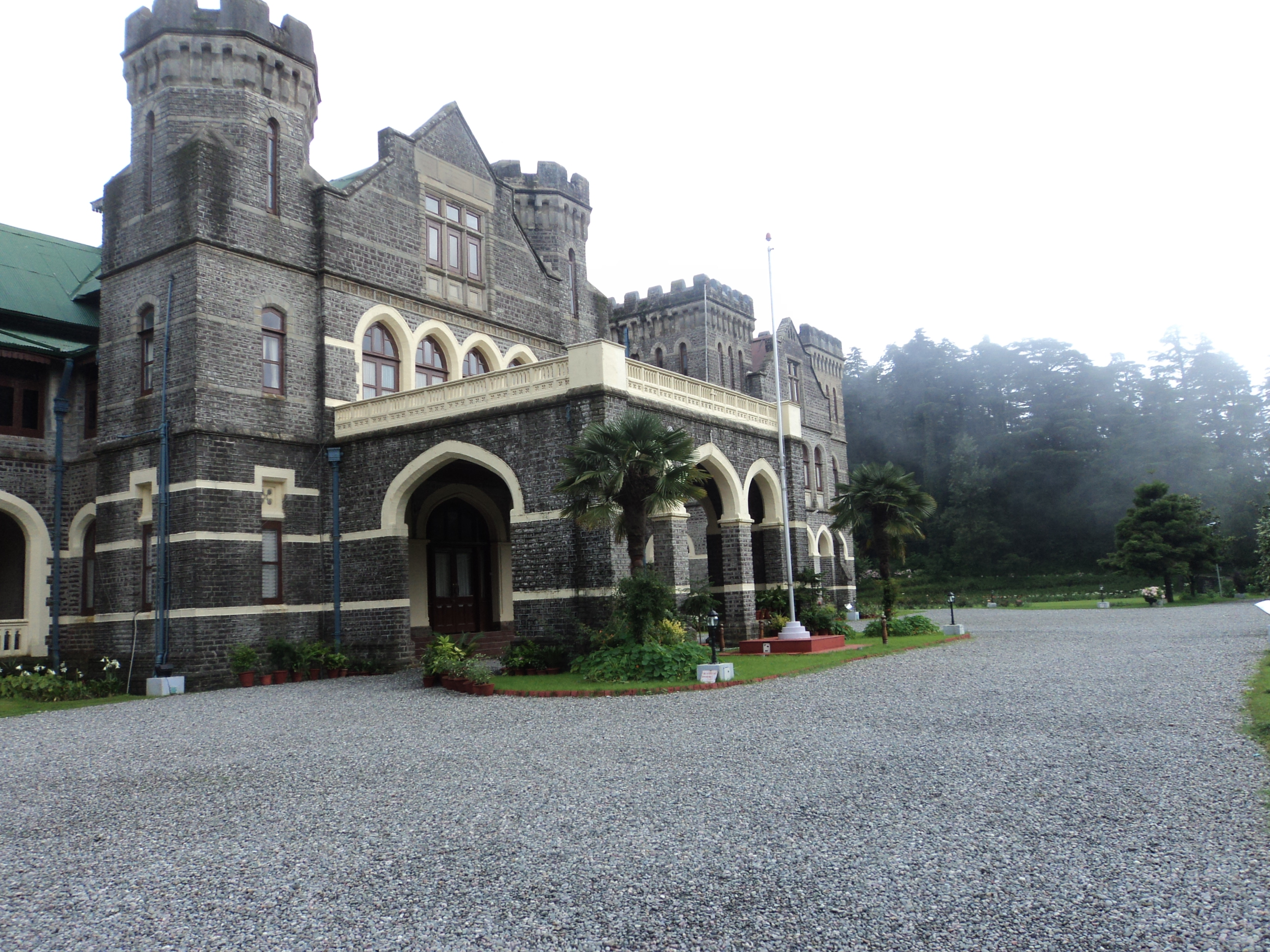 Governor’s House also known Raj Bhavan and formerly, Government House was built in 1899 and designed in the Victorian Gothic domestic style. Raj Bhavan is the official guest house for the governor of Uttarakhand and for visiting state guests.